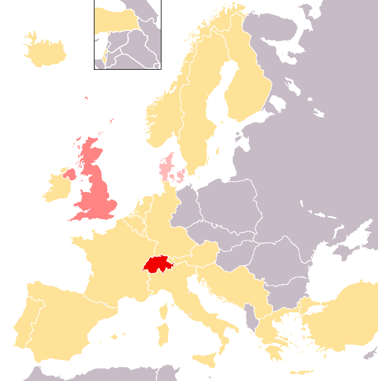 Map of Eurovision 1988